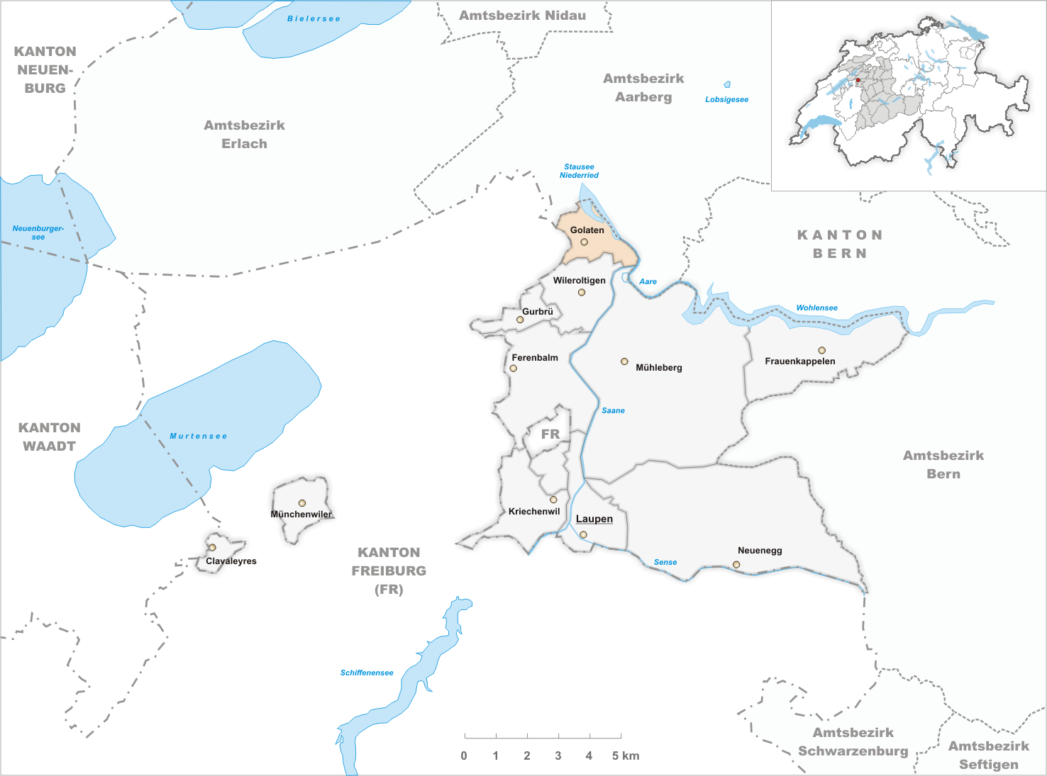 Municipality Golaten